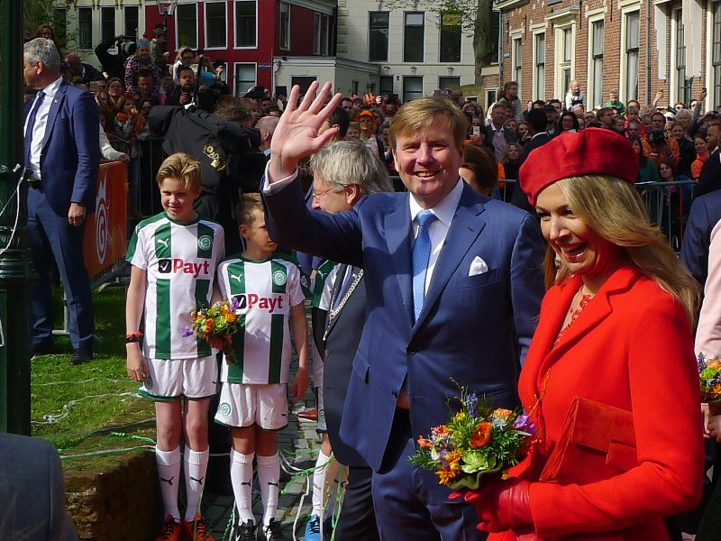 The Dutch King Willem-Alexander and queen Maxima during the celebration of Kings Day 2018 in the city of Groningen.